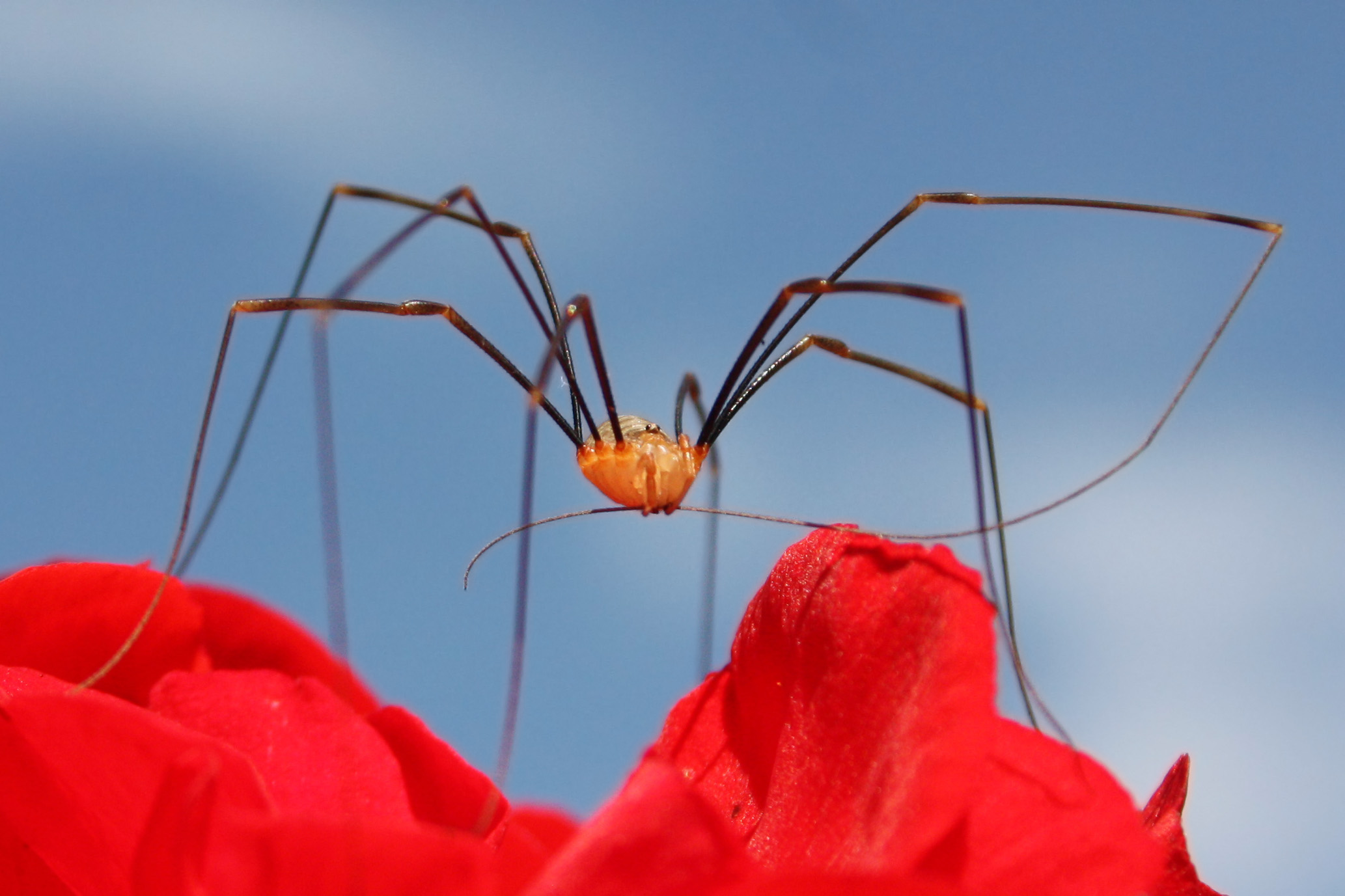 Harvestman (Opilio canestrinii), male, on a geranium flower. He is cleaning his leg by drawing it through his jaws. Photograph taken on Cumnor Hill, Oxford